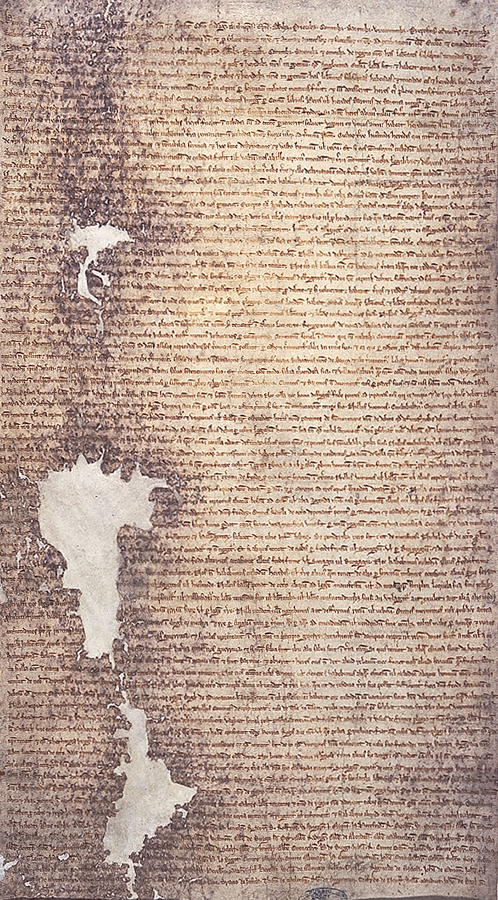 The 1225 version of Magna Carta issued by Henry III of England.